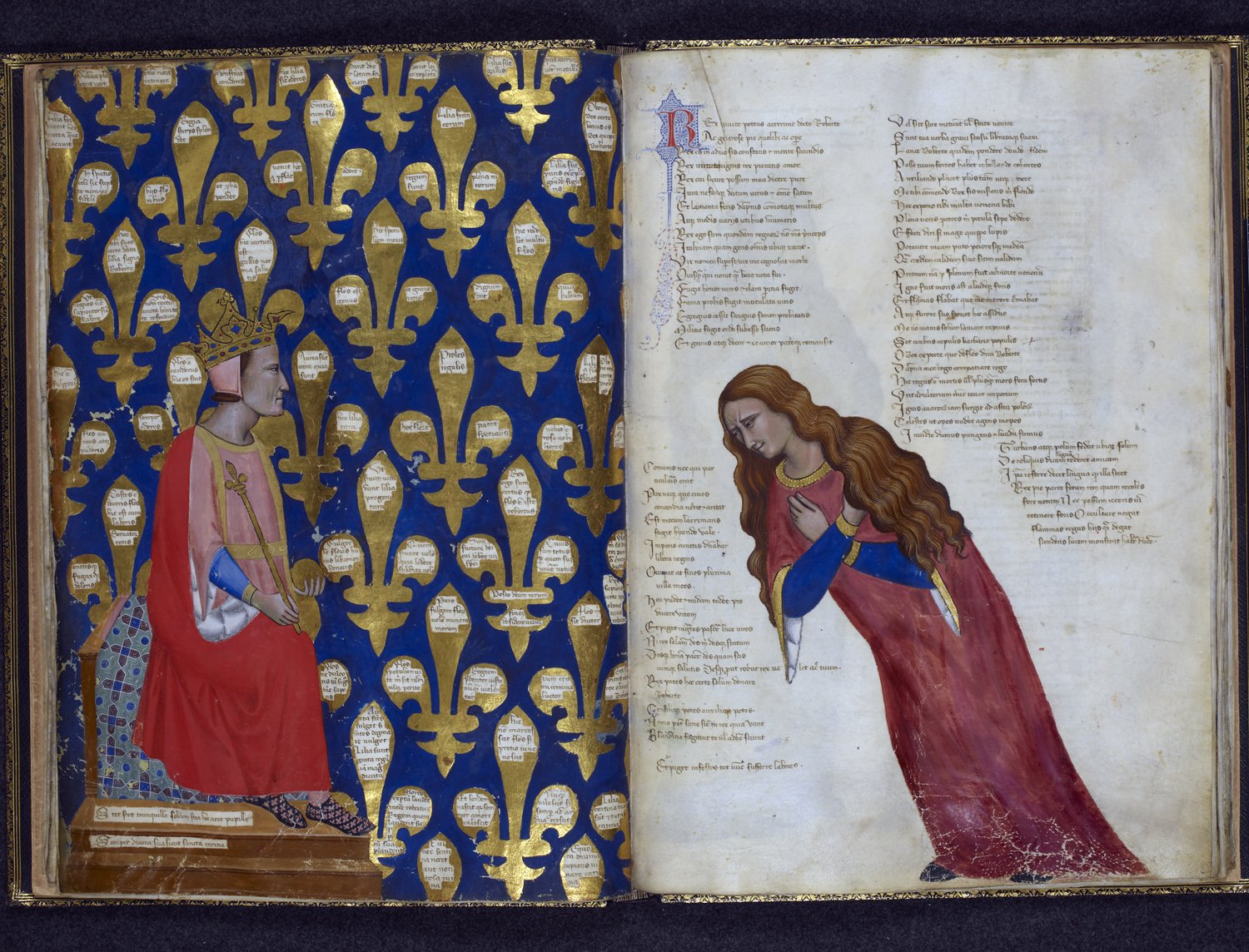 Miniature of Robert of Anjou sitting on his throne, with inscribed fleurs-de-lis in the background; miniature of the personification of Italy as a mourning woman.